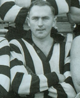 Photo of Kevin Wade in 1942